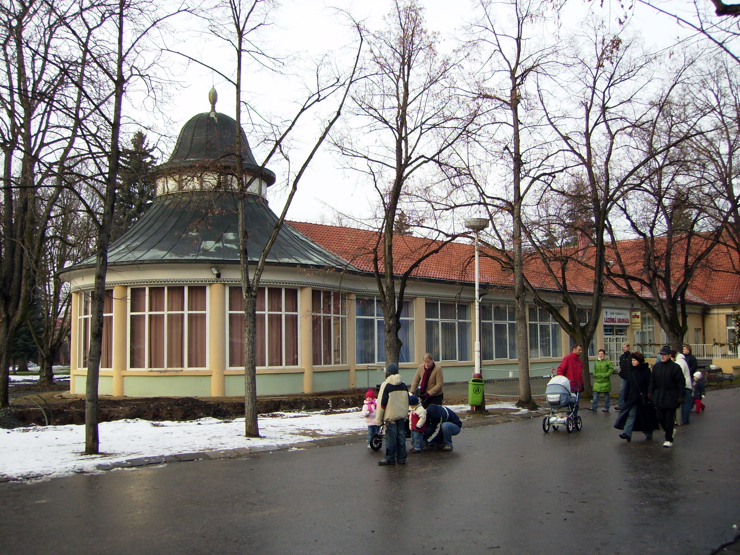 Dining house Kolonada in the city of Podebrady, Czech Republic